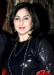 Juhi Babbar at wedding reception of Prateik Babbar 2019